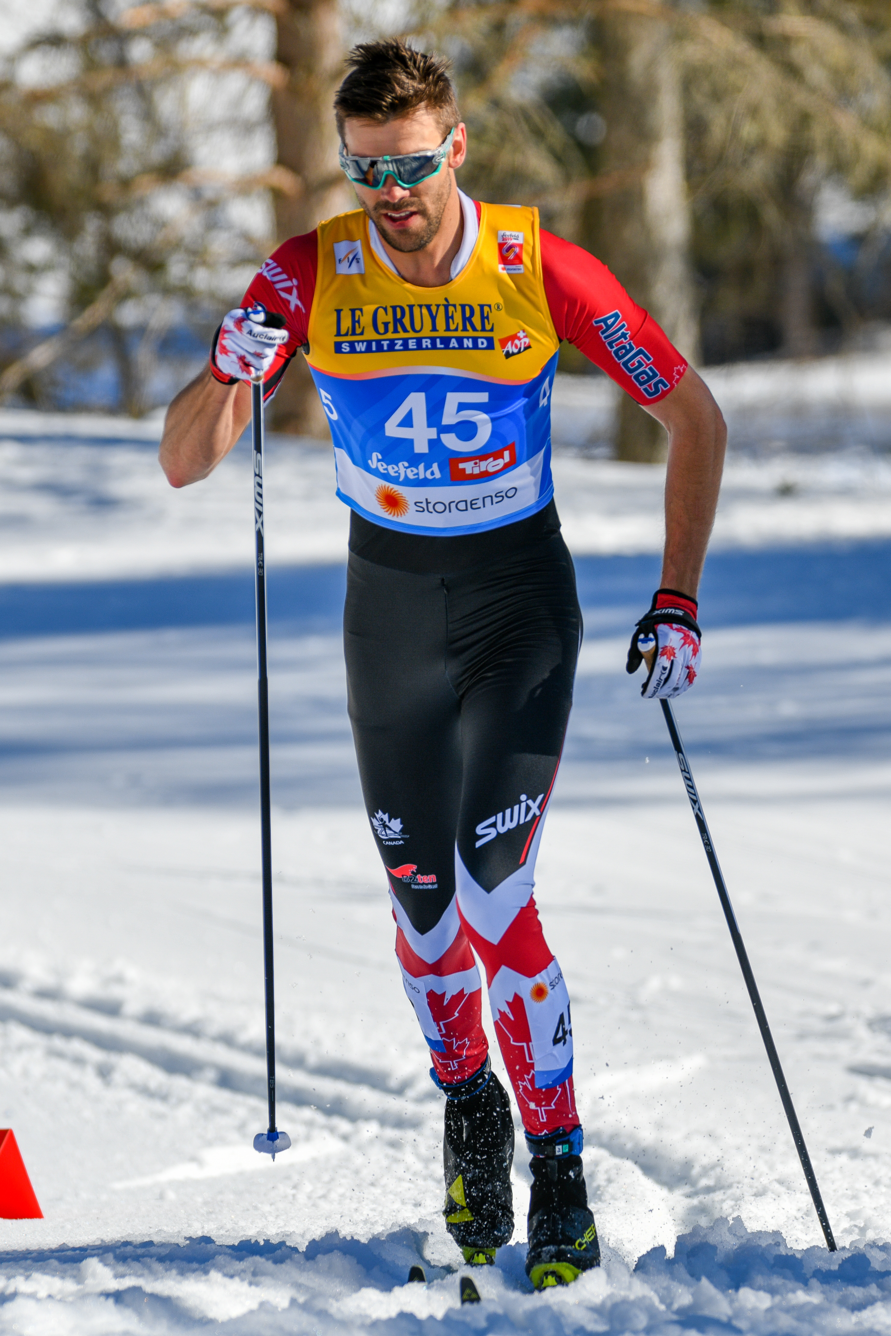 FIS Nordic Wolrd Ski Championships Seefeld 2019 - Men 15km Interval Start Classic. Picture shows Len Valjas (CAN).